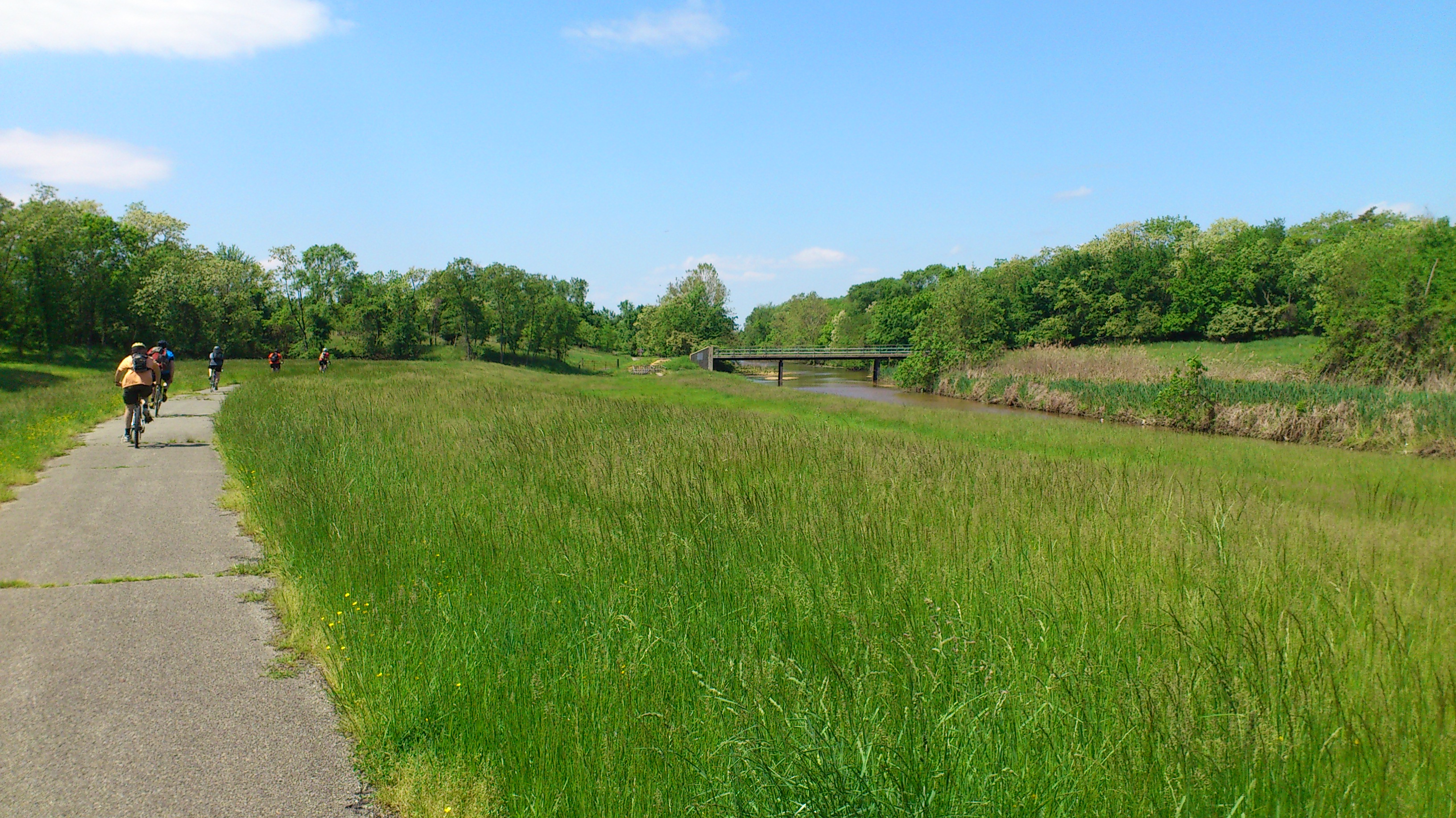 Meadows of wildflowers just outside the District